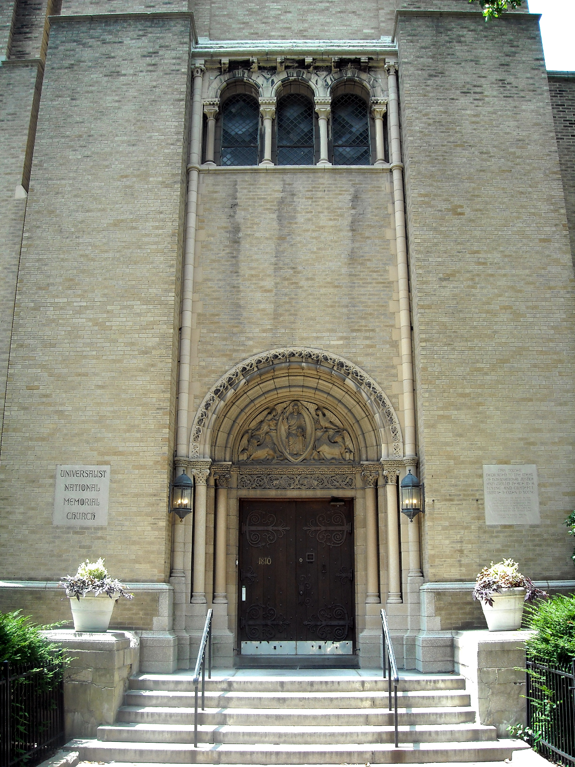 Entrance to the Universalist National Memorial Church on 16th Street, NW in the Dupont Circle neighborhood of Washington, D.C.